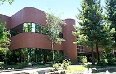 Photo of Meru Networks headqaurters building